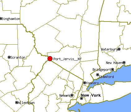 Created using US Census TIGER database